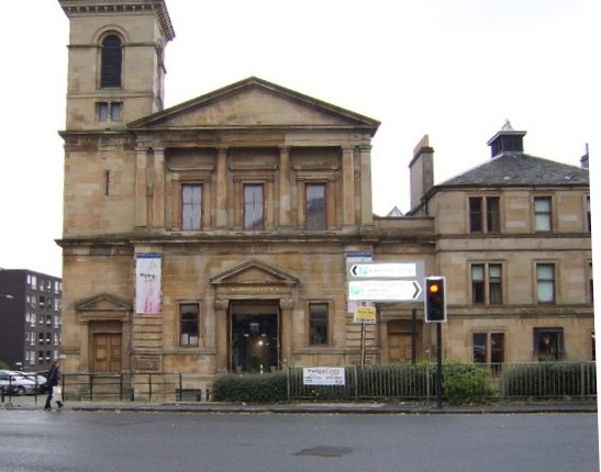 The National Piping Centre, Glasgow (cropped)